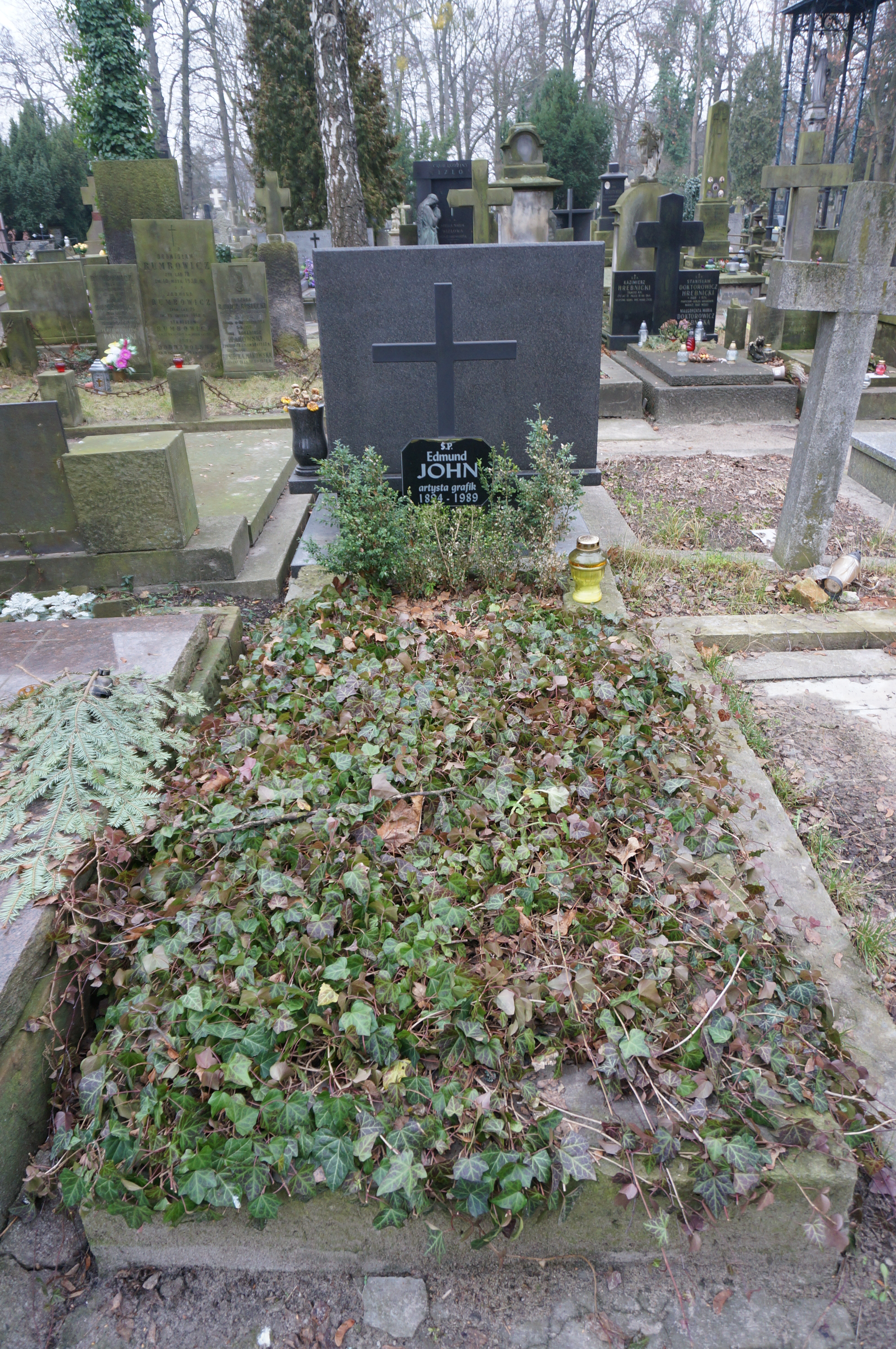 The grave of Edmund John at the Powązki Cemetery (section S, row 4, grave 18)